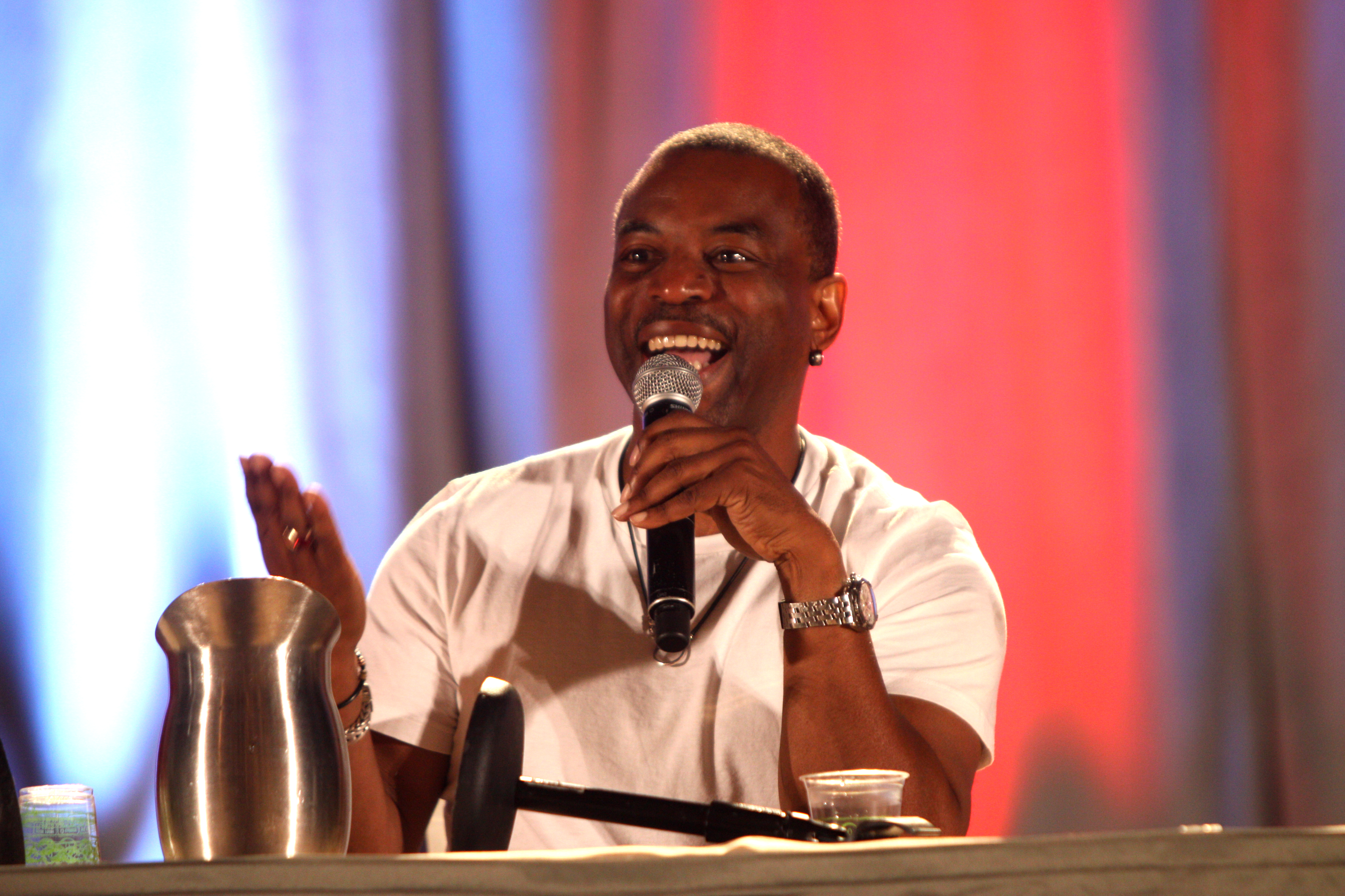 LeVar Burton speaking at the 2012 Phoenix Comicon in Phoenix, Arizona.